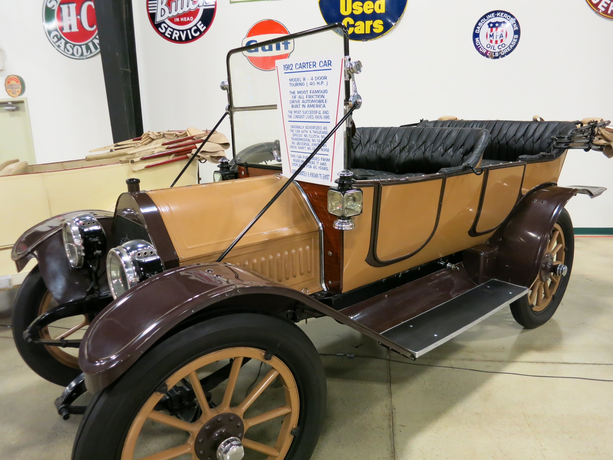 1912 Cartercar Tupelo Automobile Museum Tupelo, Mississippi